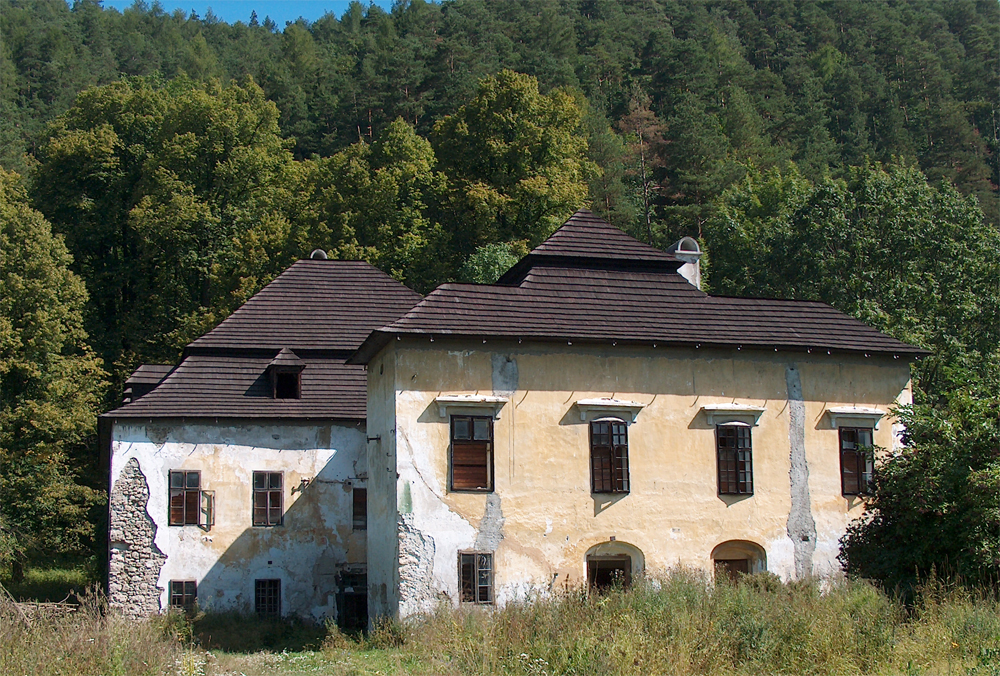 Necpaly - so-called Franklin's manor house